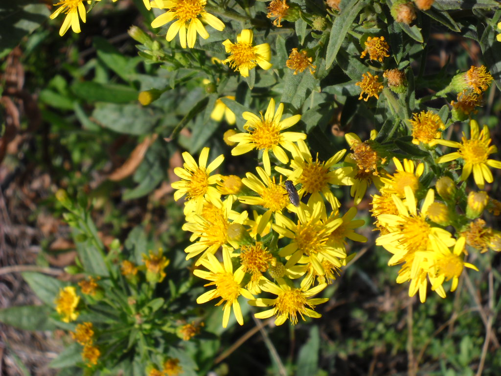 Dittrichia viscosa inflorescence, Asteraceae. Flowers and fruit.